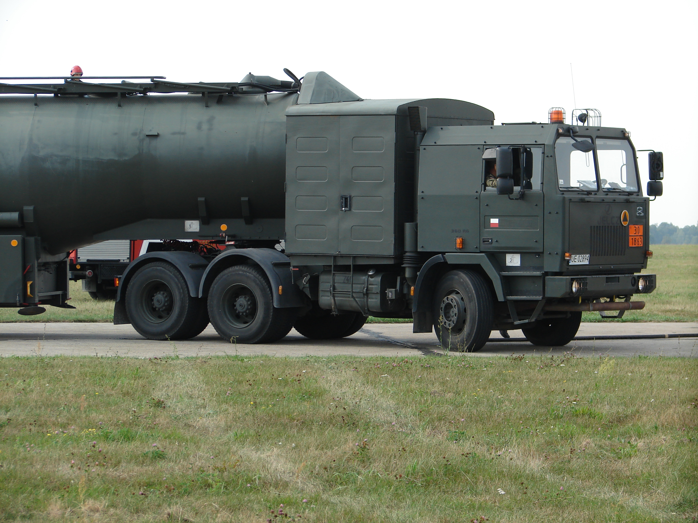 Ciągnik siodłowy Jelcz C642D.35